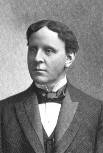 Clarence W. Seamans, president of the Remington Typewriter Company